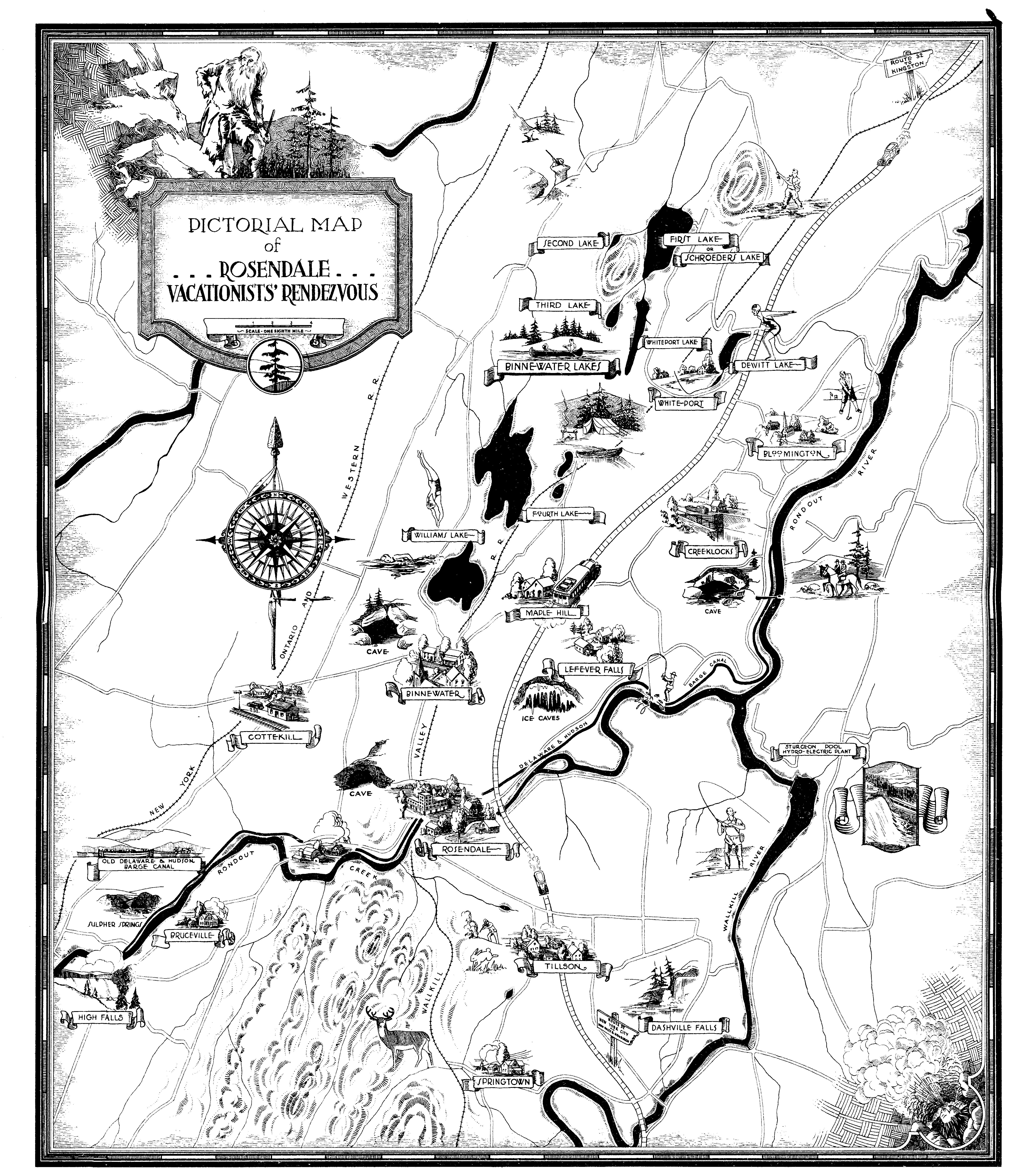 A pictorial map of the town of Rosendale, New York.